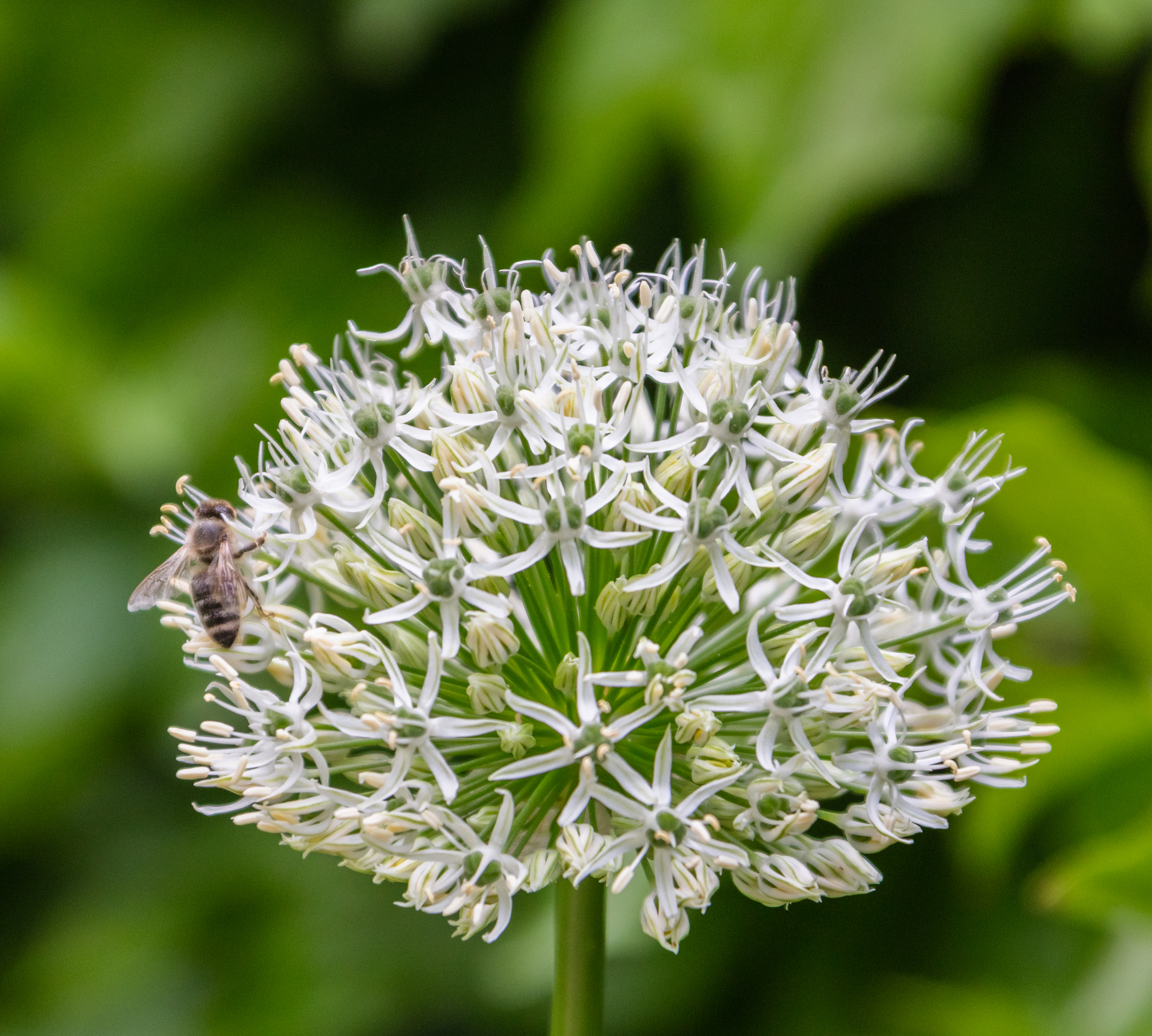 Allium 'Mount Everest', Riedergarten, Rosenheim, Germany